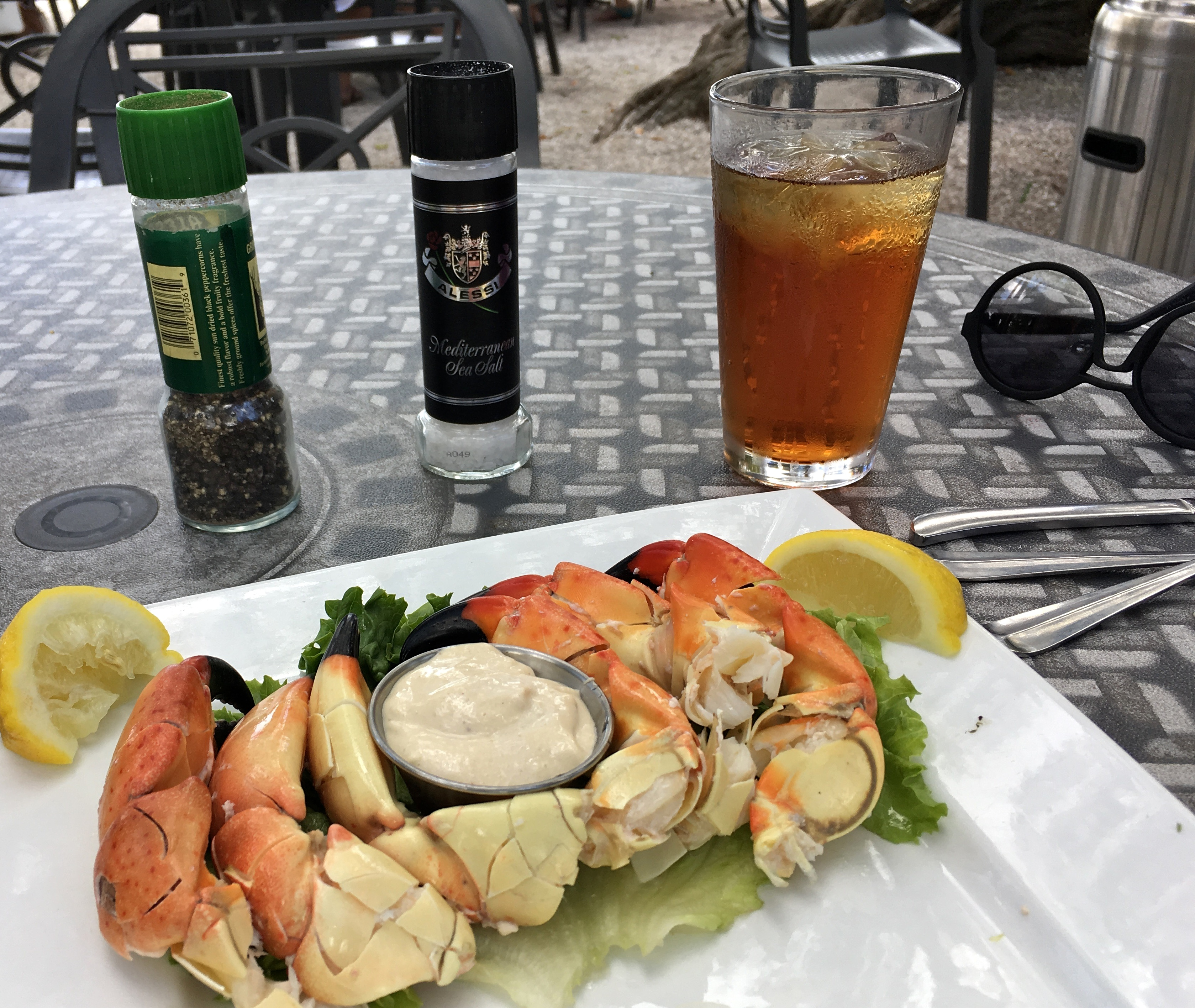 Florida stone crab served at Mar Vista Dockside Restaurant, on Longboat Key